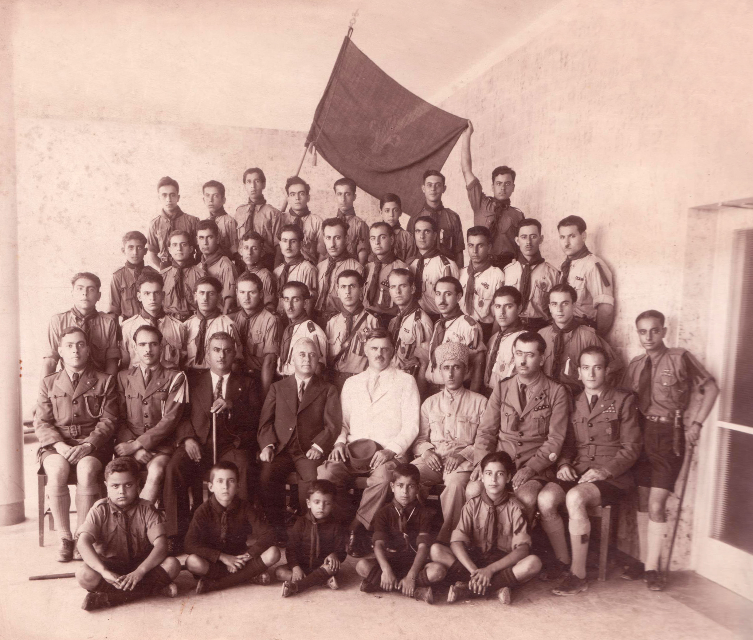 Haifa Maronite Boy Scouts, August 1939. Center: Dr John Macqueen